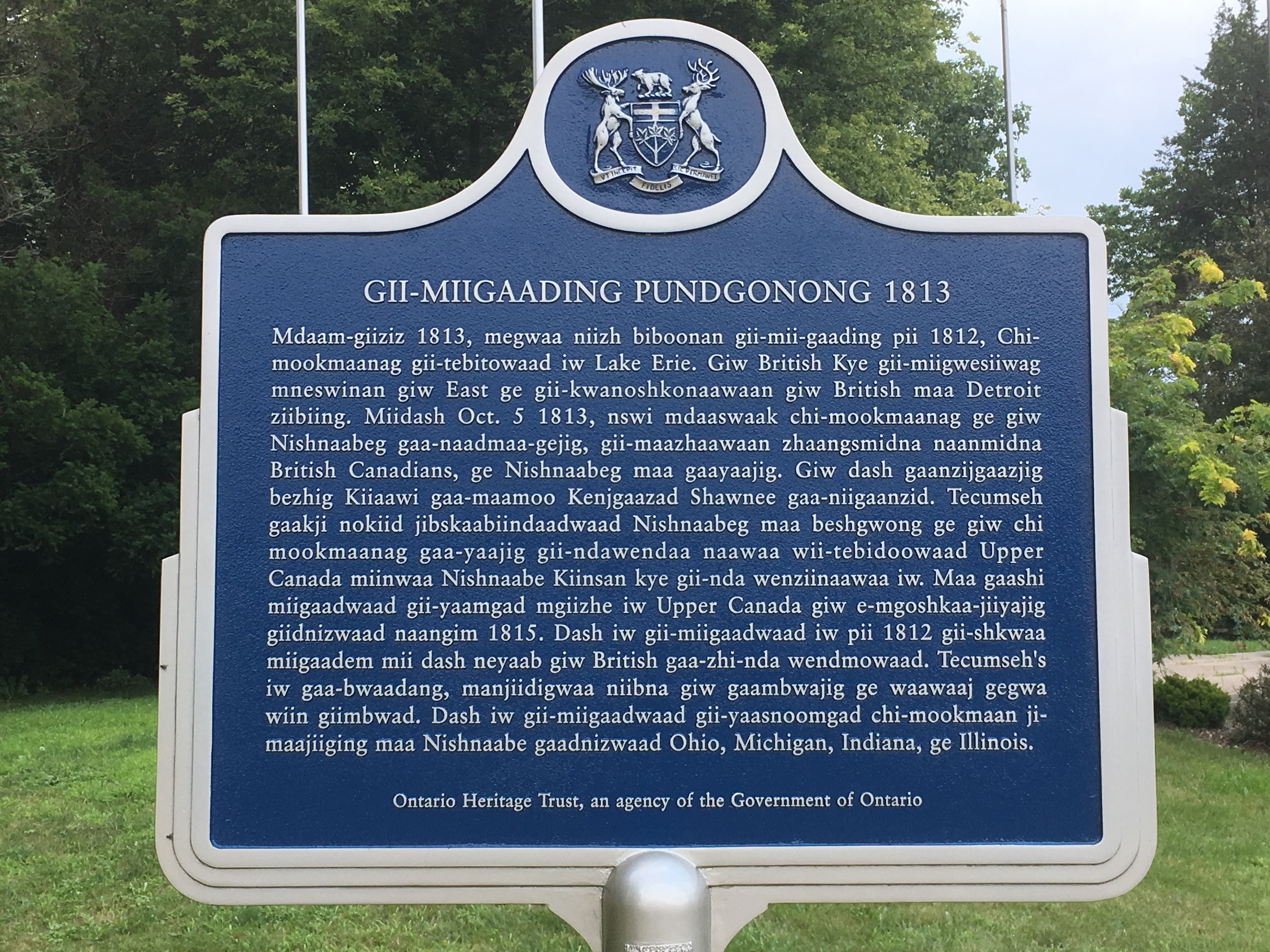 Ontario Heritage Trust plaque in Ojibwe at the Battle of Thames/Tecumseh monument